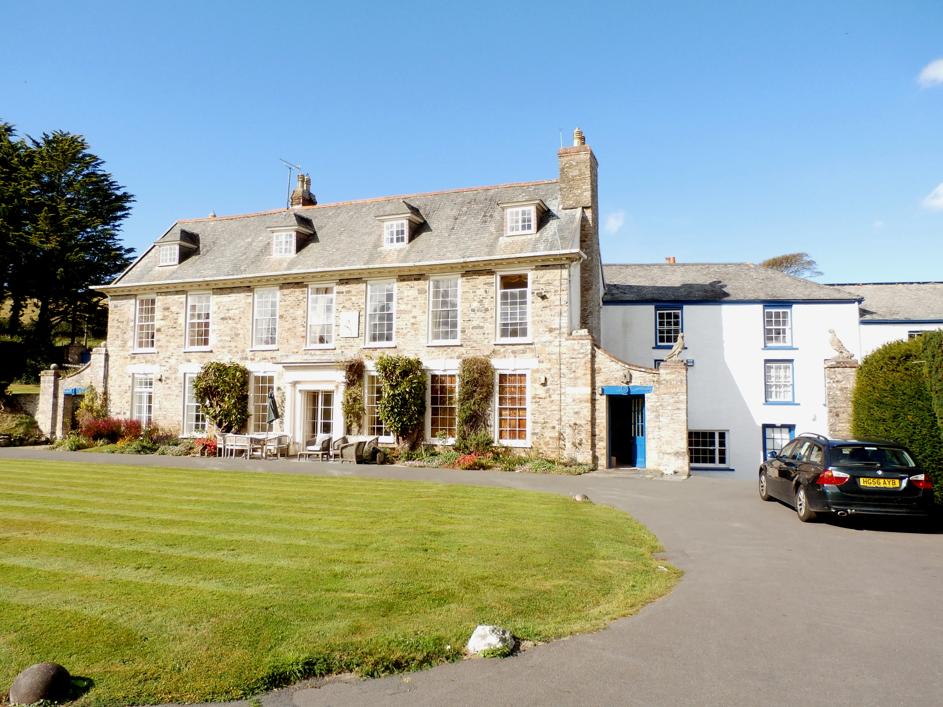 Buckland House, Braunton, North Devon, south front